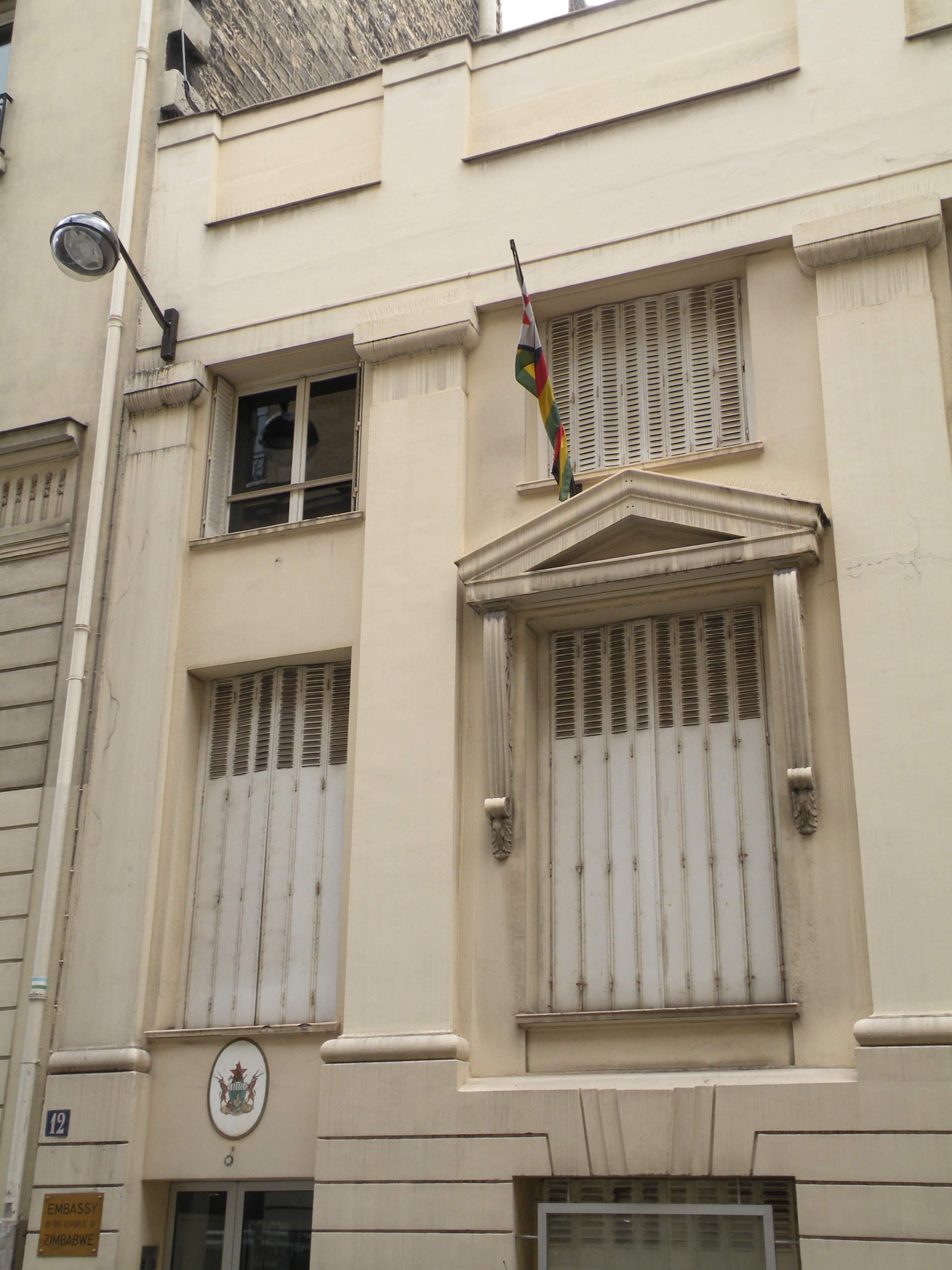 Zimbabwean embassy in France, Paris.